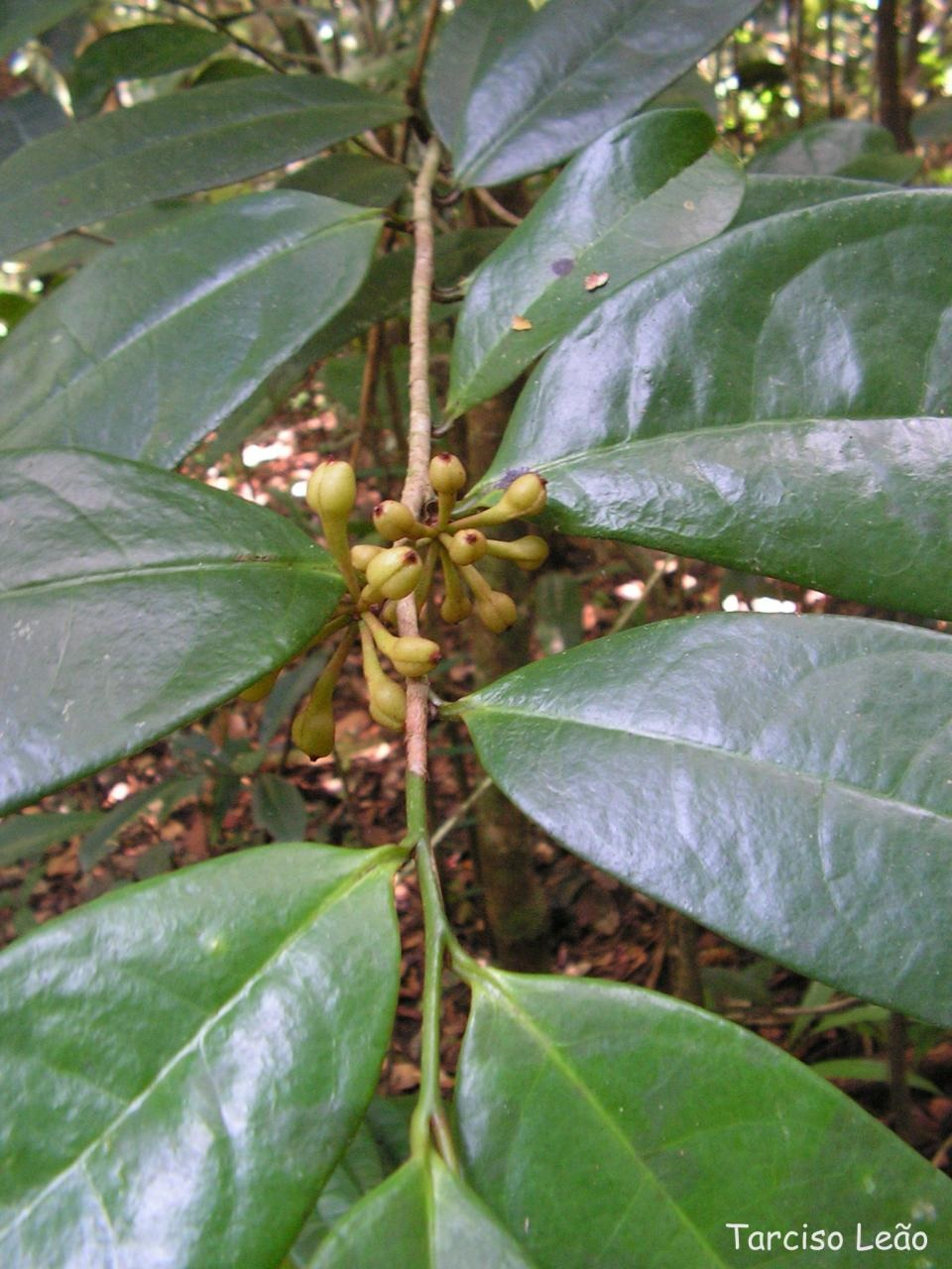 Anaxagorea dolichocarpa (mium-açu) Floresta Atlântica, Pernambuco, Brasil. Arvoreta de sub-bosque.